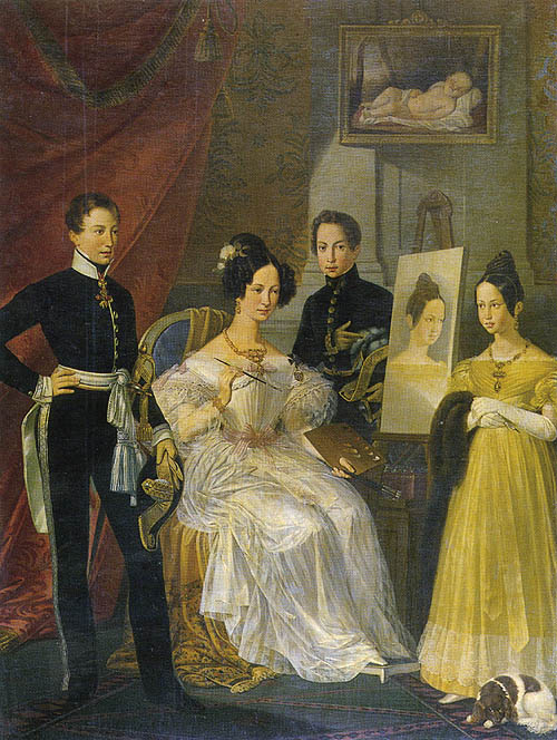 The children of Francis IV, Duke of Modena and his wife Maria Beatrice of Savoy